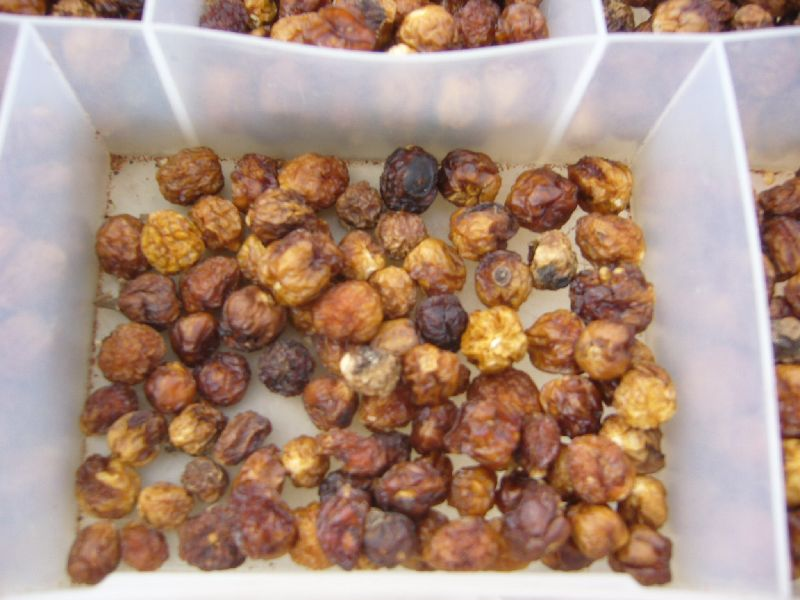 Bush tomatoes during a Bush Tucker